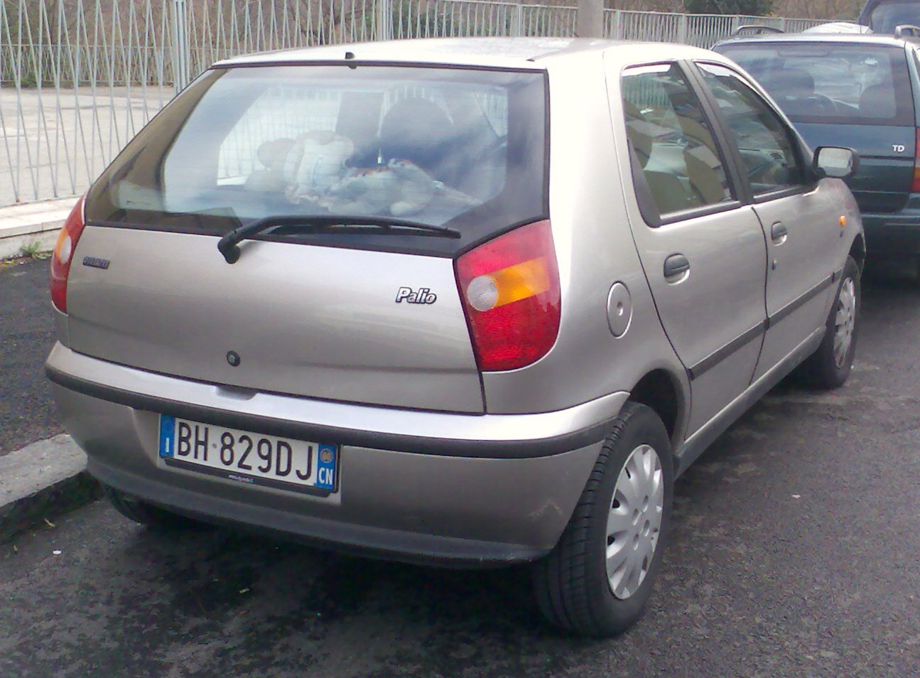 Fiat Palio MK1